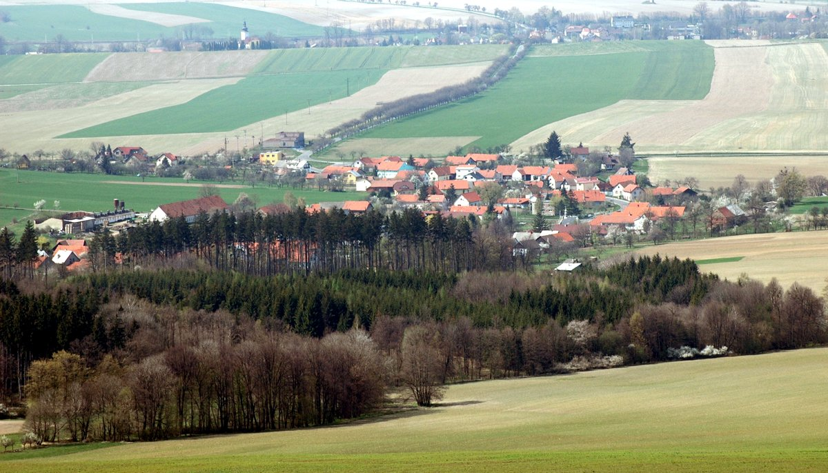 Hůrka (village), a part of Jeseník nad Odrou, Nový Jičín District, Czech Republic